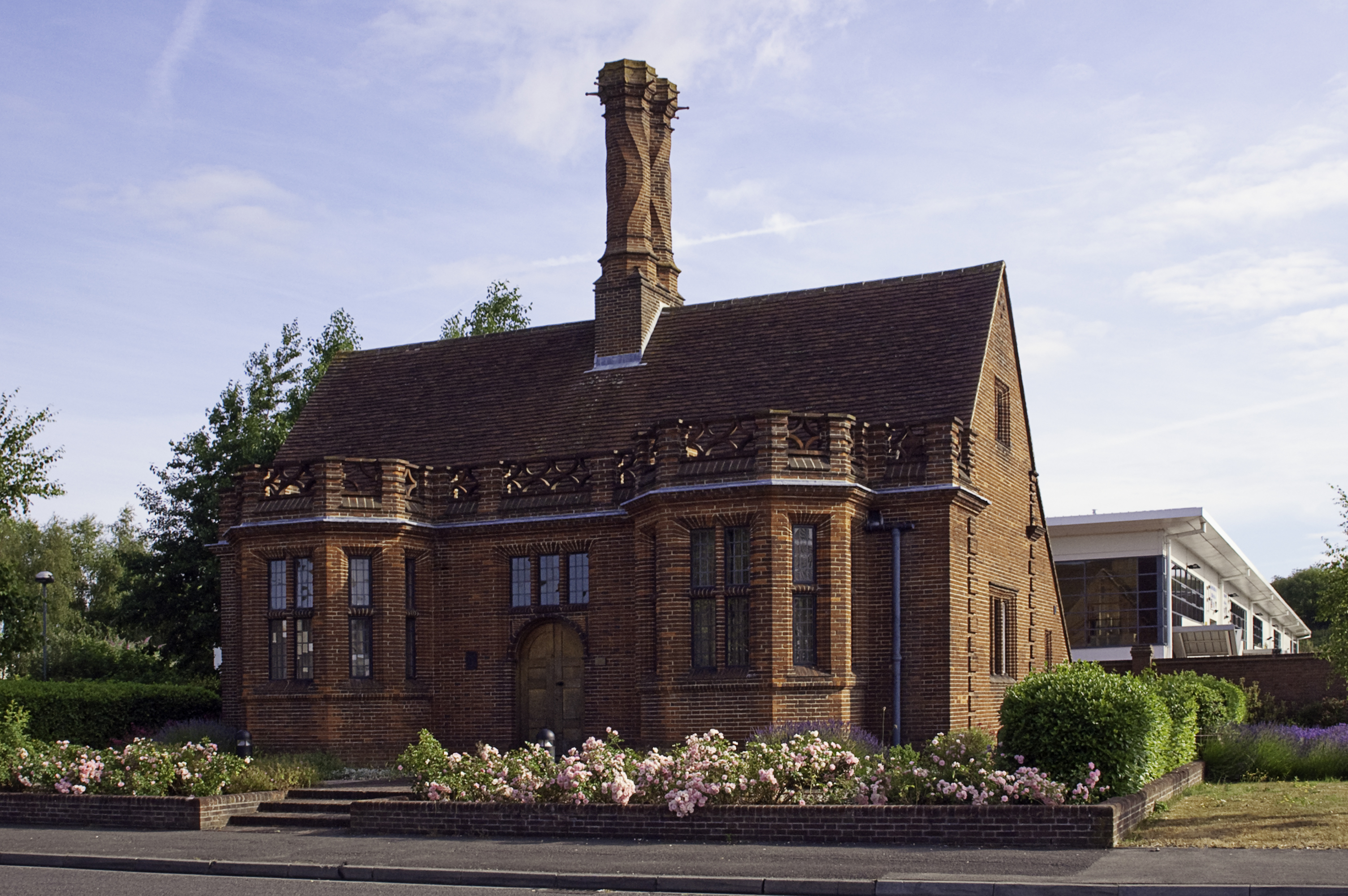 Edwin Lutyens Brickyard office designed for the Daneshill Brick Co. see also File:LutyensOffice22Ja063589.jpg.